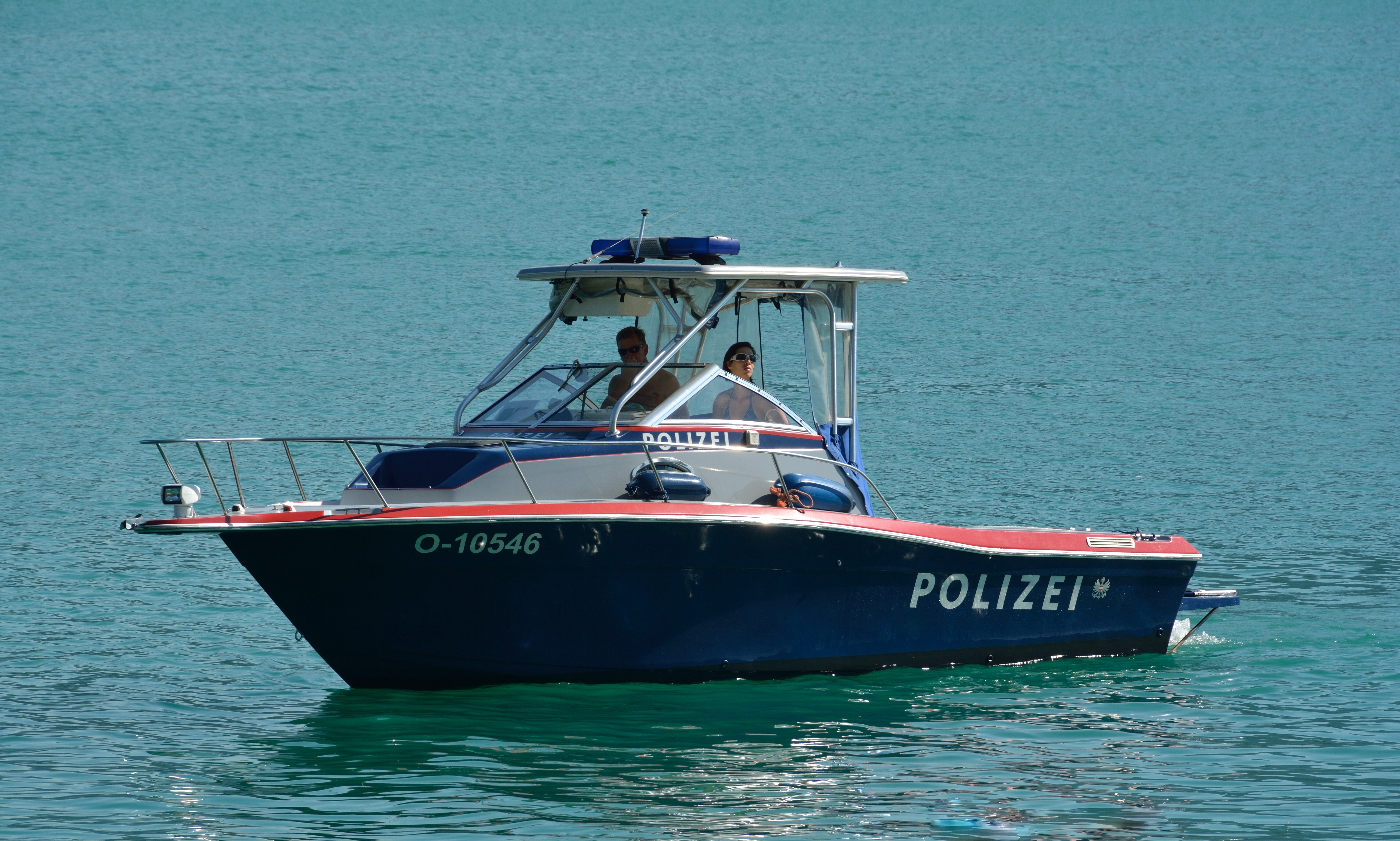 Police boat at Wolfgangsee, Salzburg